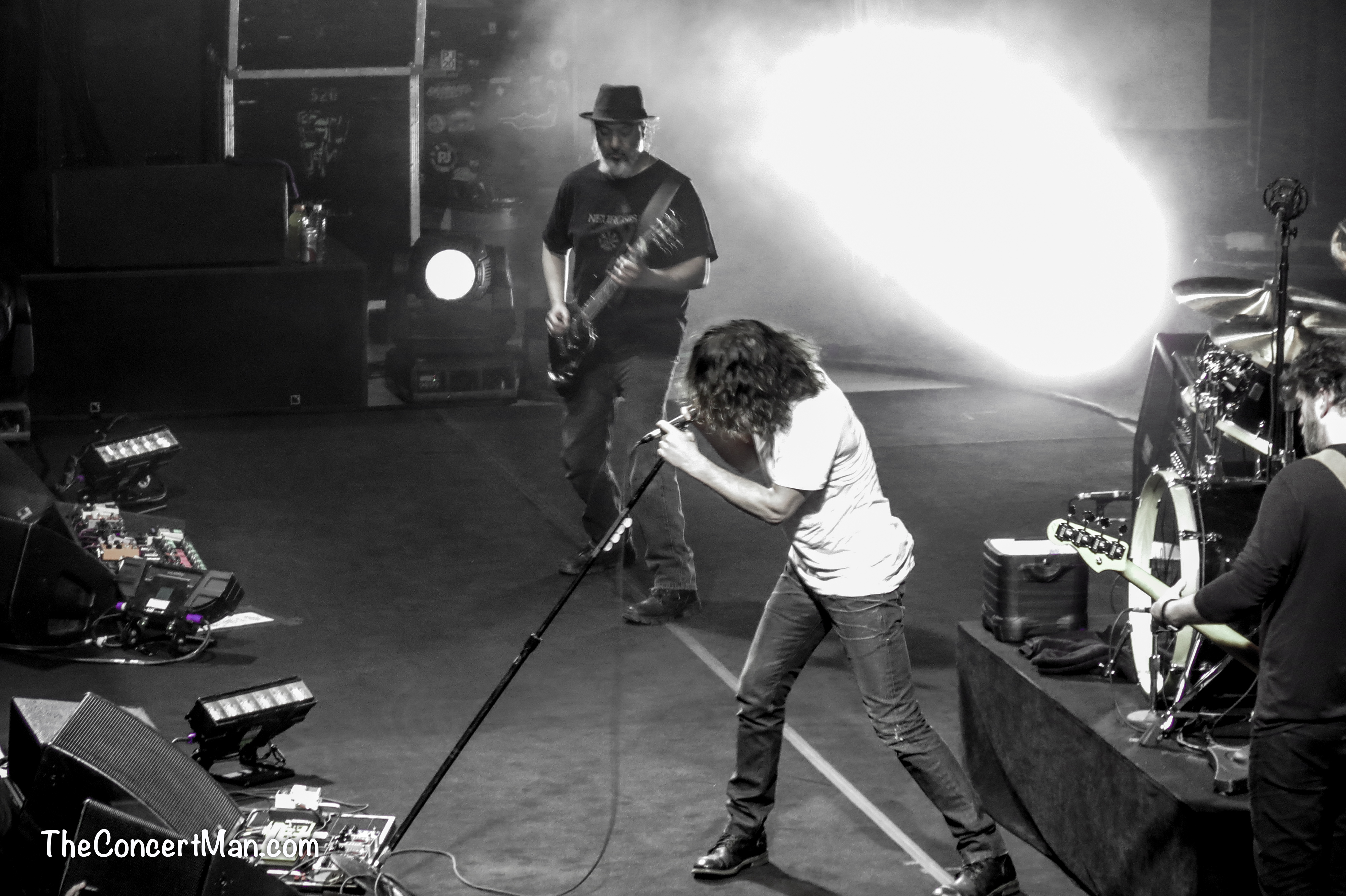 Soundgarden live at 2013